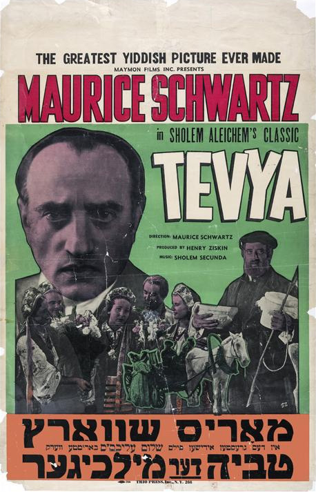 English/Yiddish poster for the 1939 American film Tevya, based on author Sholem Aleichem's character of the same name.